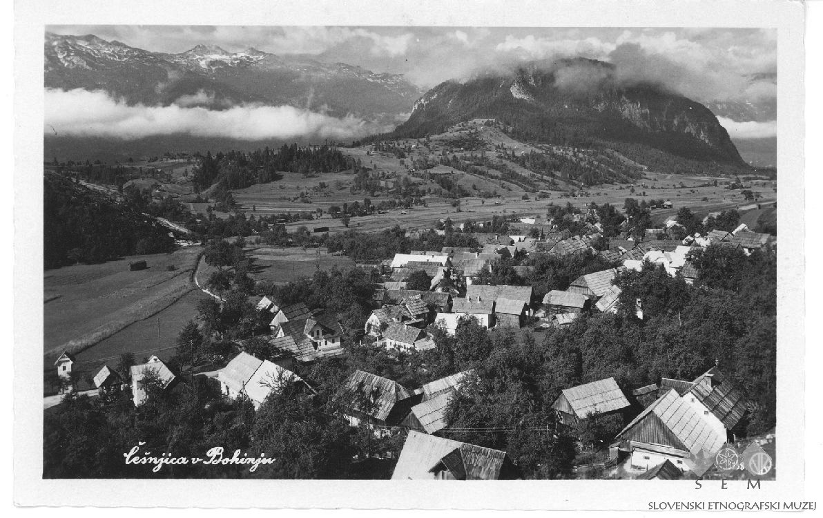 Postcard of Češnjica pri Kropi